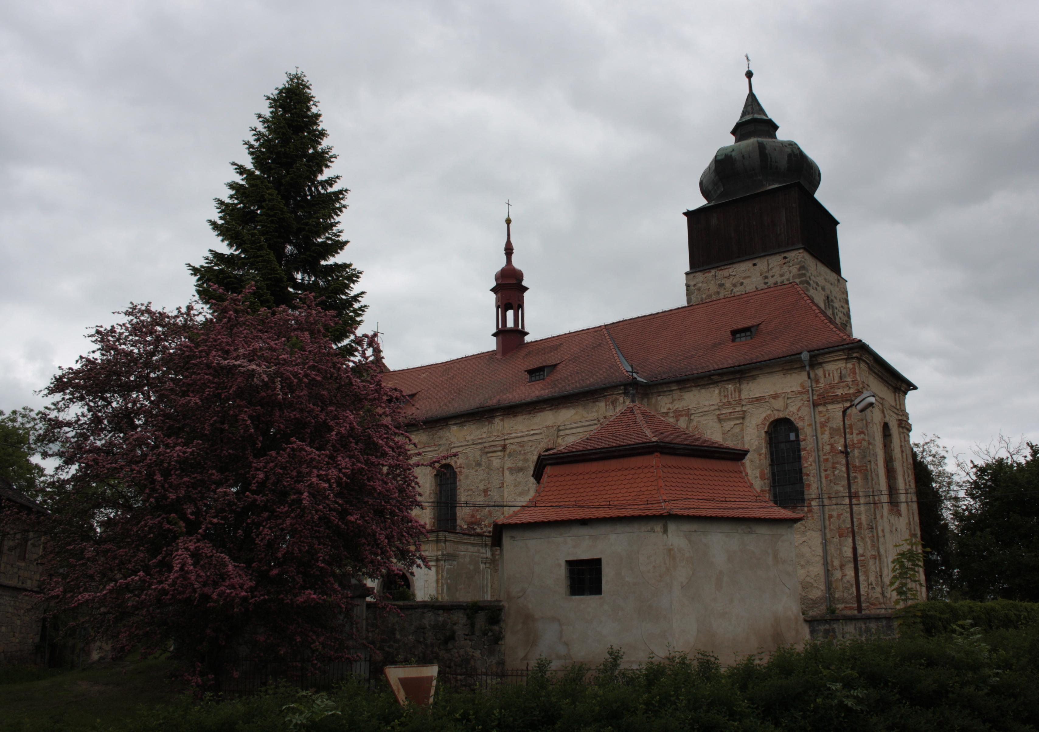 Skalsko, Mladá Boleslav District, Central Bohemian Region, Czech Republic This photograph was taken with a DSLR from WMCZ's Camera grant. Project: Fotíme Česko